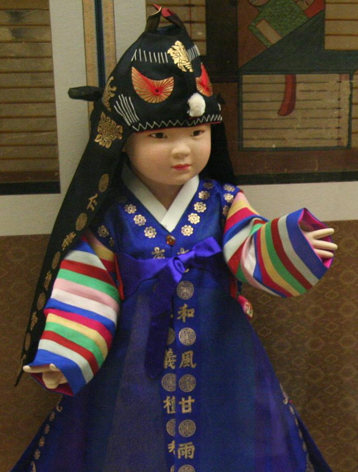 A models of Korean young boy during the Joseon dynasty in hanbok (Korean traditional clothing) are displayed at The National Folk Museum of Korea, Seoul, South Korea. The model wears the jeonbok (long sleeveless vest) over the obangjang durumagi (a colorful overcoat) and baji (baggy trouser). The model also wears hogen(headgear embroidered with a tiger pattern) on his head, and "tarae beoseon" (embroidered socks) on his feet.